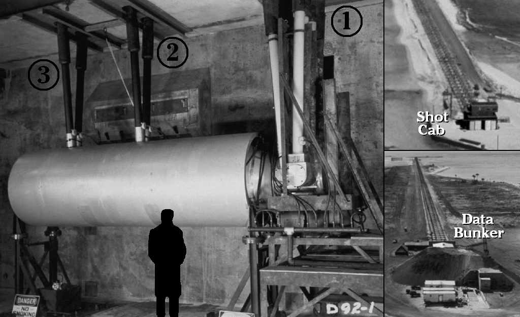 The Shrimp device, exploded on March 1, 1954, at Bikini, as the Bravo Shot of the Operation Castle nuclear weapon test series. Labels and silhouette added by me for use in Nuclear Weapon Design article.